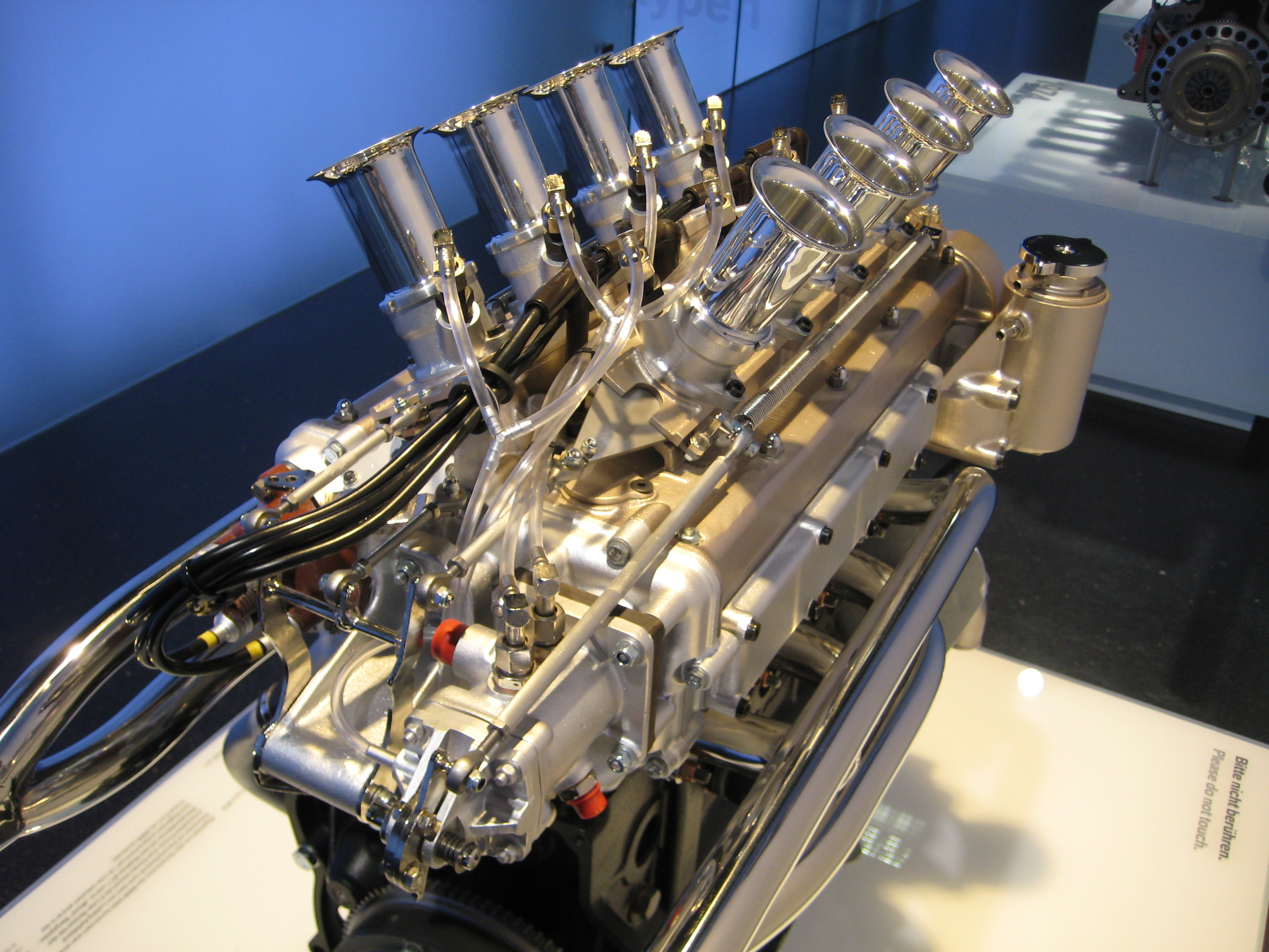 BMW Formula 2 Engine from 1966 based on the M10 Engine with Apfelbeck - Head